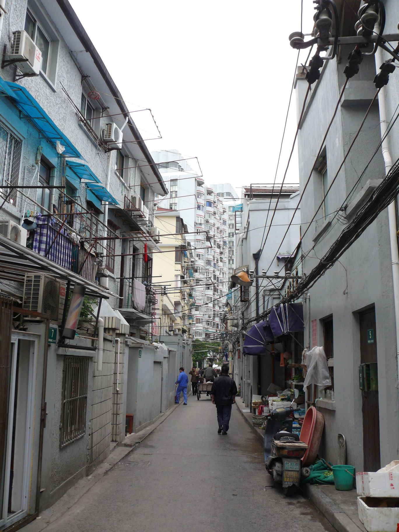 A lilong (里弄) in Shanxi Nan Lu, Shanghai (China).